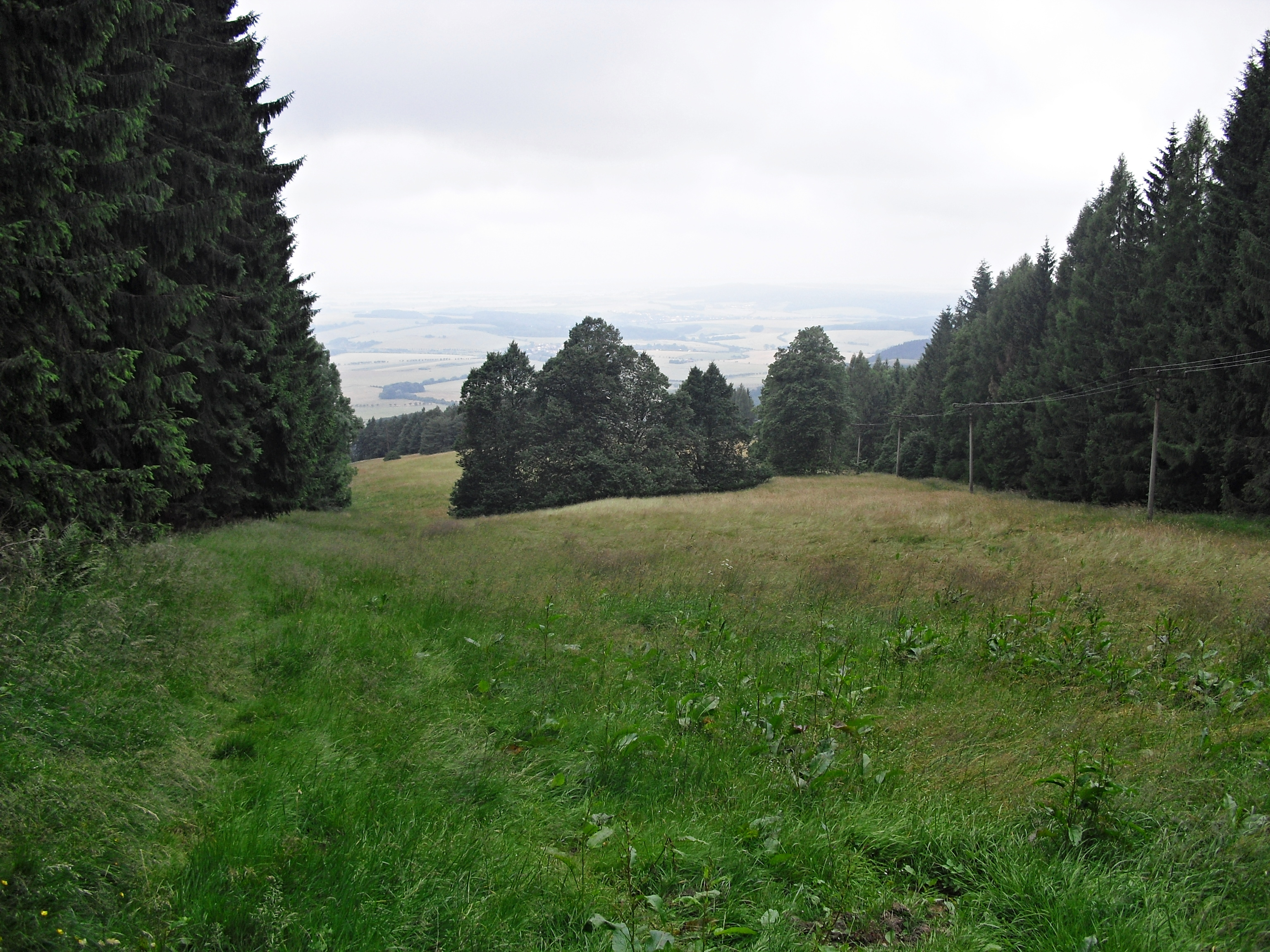 Stráň, natural monument in Kroměříž District, Czechia.